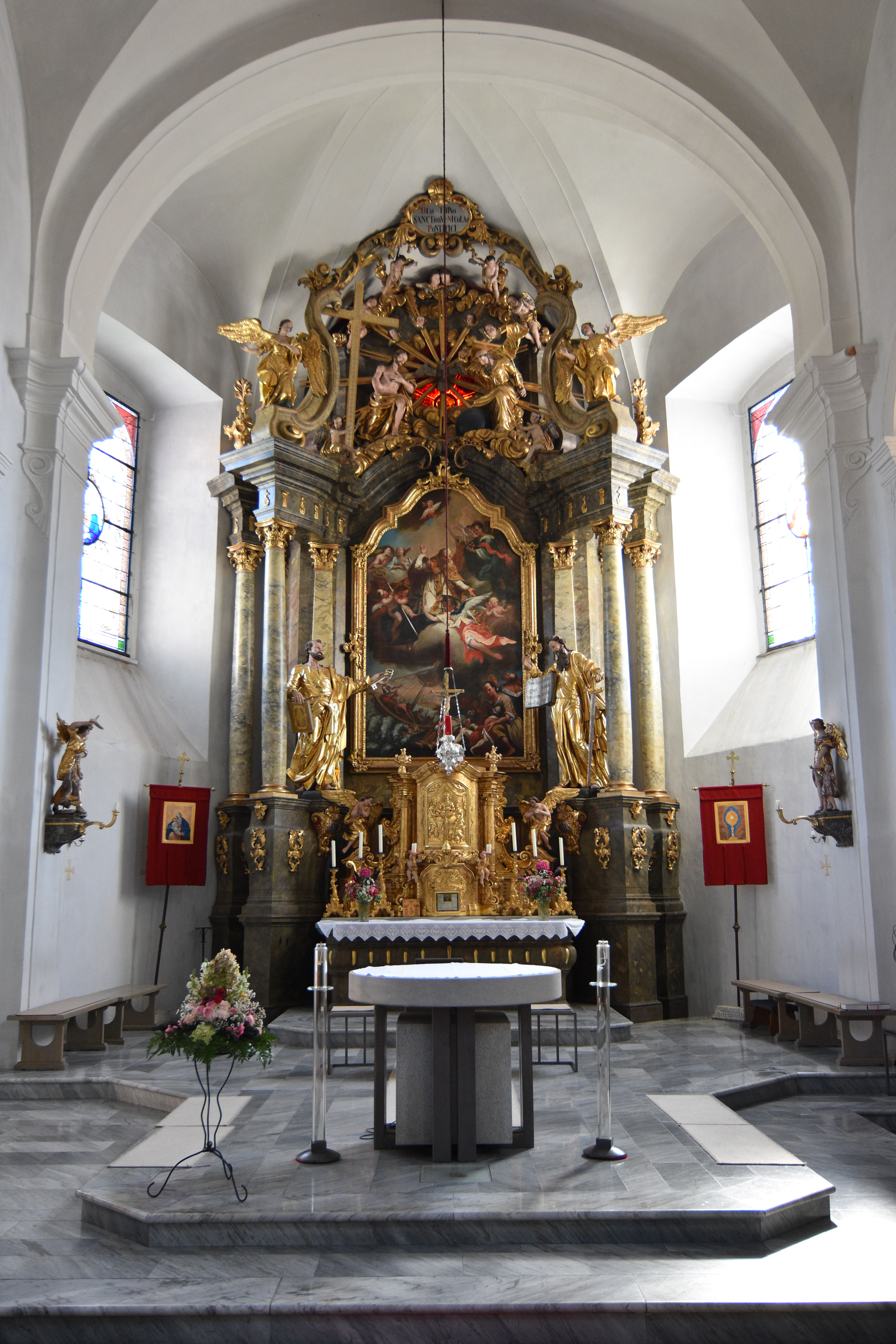 Church hl. Nikolaus, Stubenberg am See - Interior